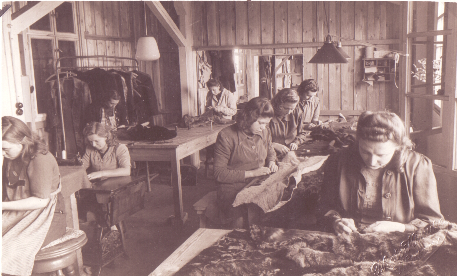 Furrier family Bennewitz in Wurzen, Germany since 1652